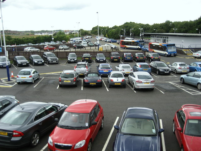 Car Park at Croy Station Large car park for station users.